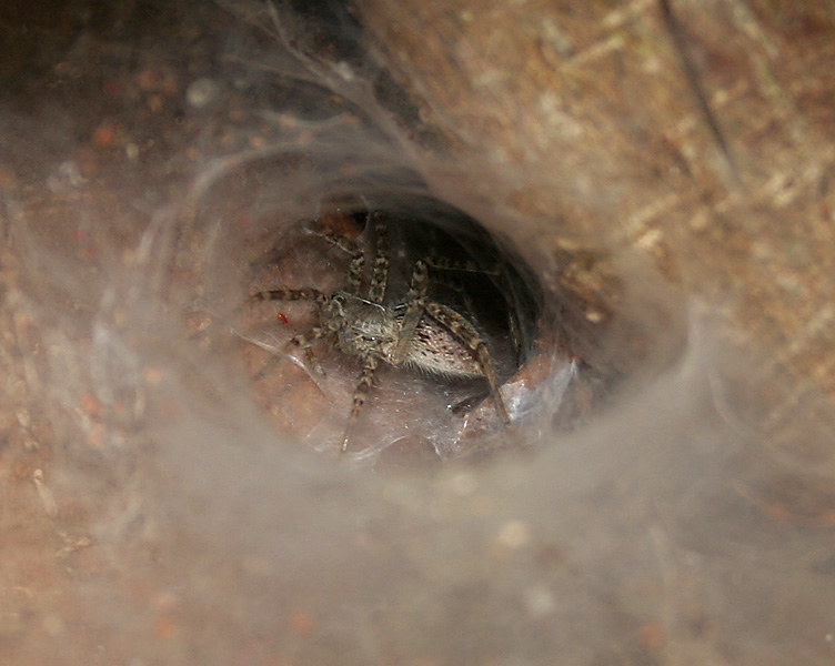 Common Funnel web spider Hippasa agelenoides at Ananthagiri Hills, in Rangareddy district of Andhra Pradesh, India.